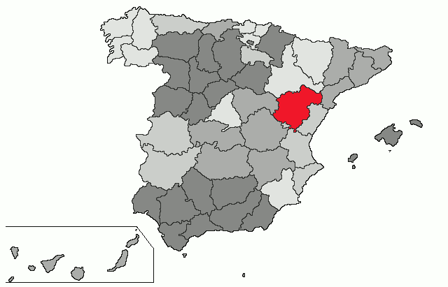 Province of Teruel Creado por CHV, basándose en Image:Provincia Soria.png (esta a su vez basada en Image:ProvPont.jpg de Sobreira).